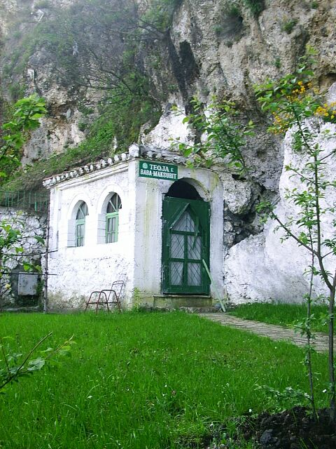 Town of Krujë, Albania